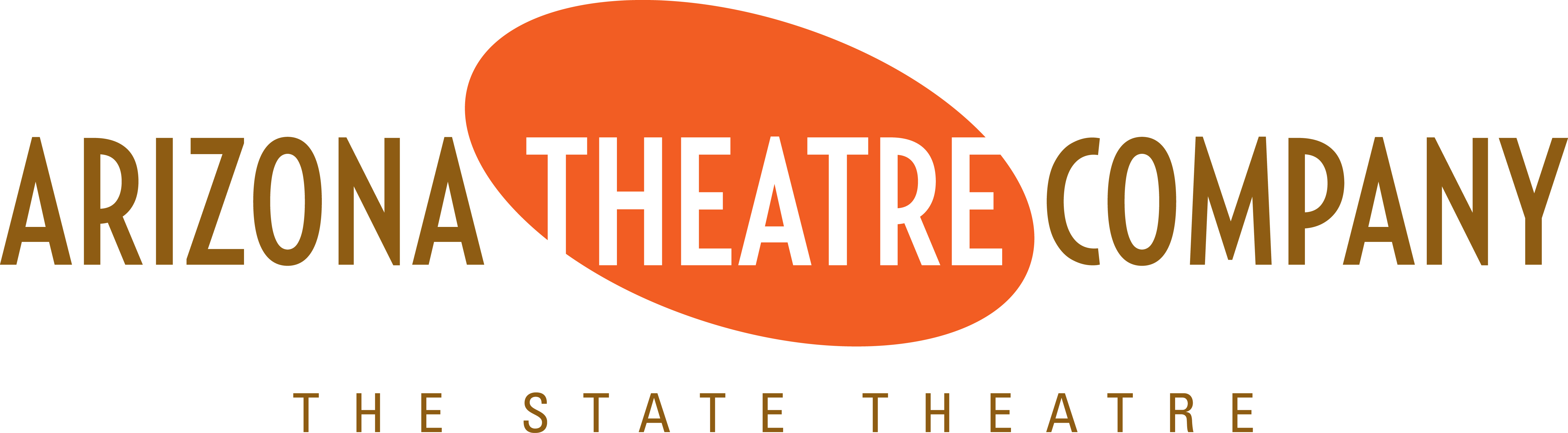 Official logo for Arizona Theatre Company between 2012 and 2015.